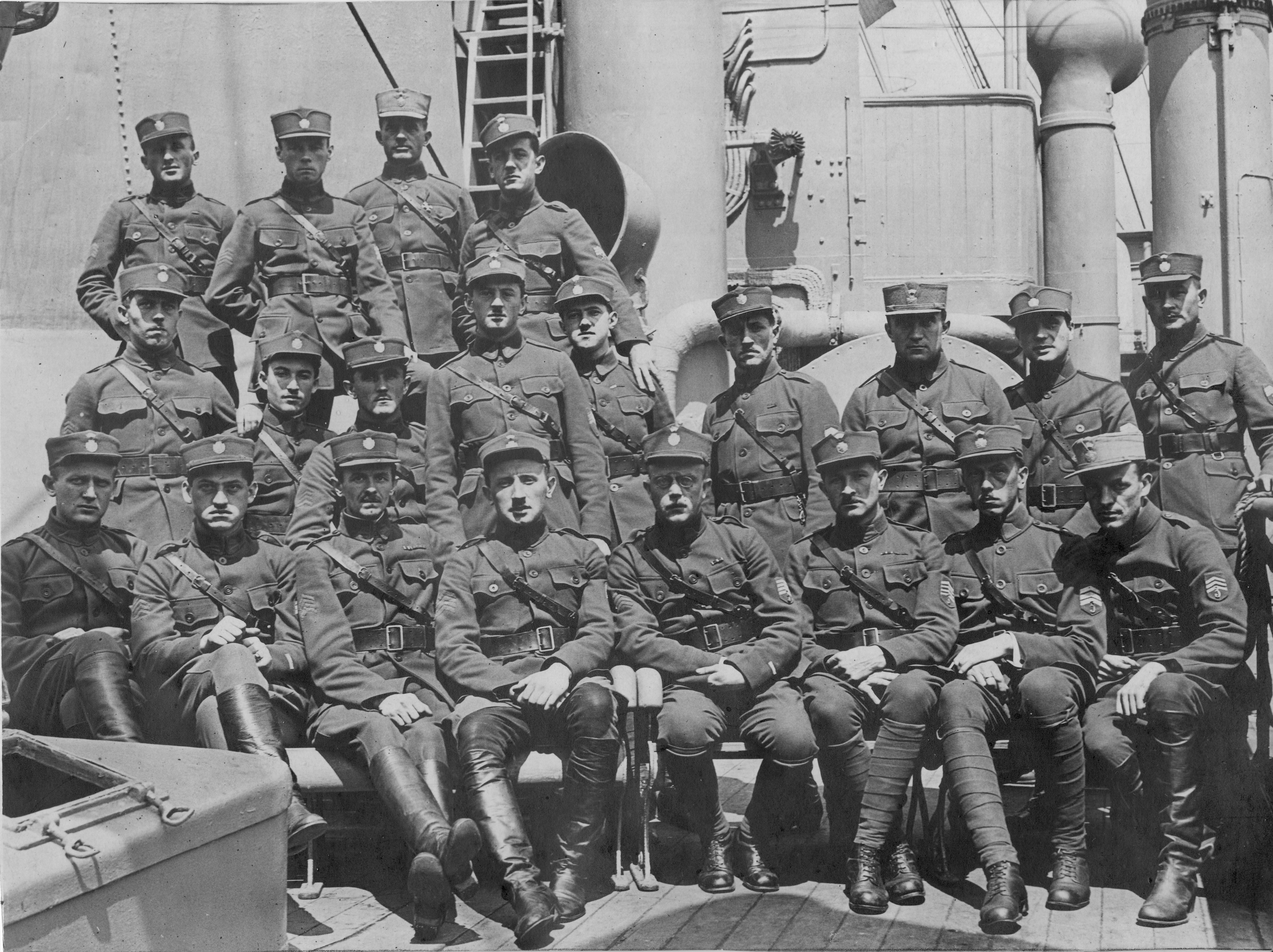 Officers of the 3rd Regiment of Czechoslovak Legion aboard of U.S. Army transport ship Mt. Vernon, headed from Vladivostok to Norfolk, Virginia, USA in the summer of 1920. Fifth from left, in the middle row, is Second Lieutenant Jan Heuschneider.